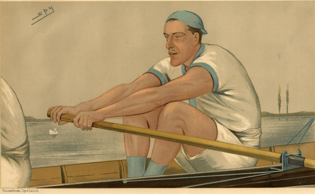 Muttlebury, Stanley Duff - “One of the Presidents” - Spy - March 22, 1890